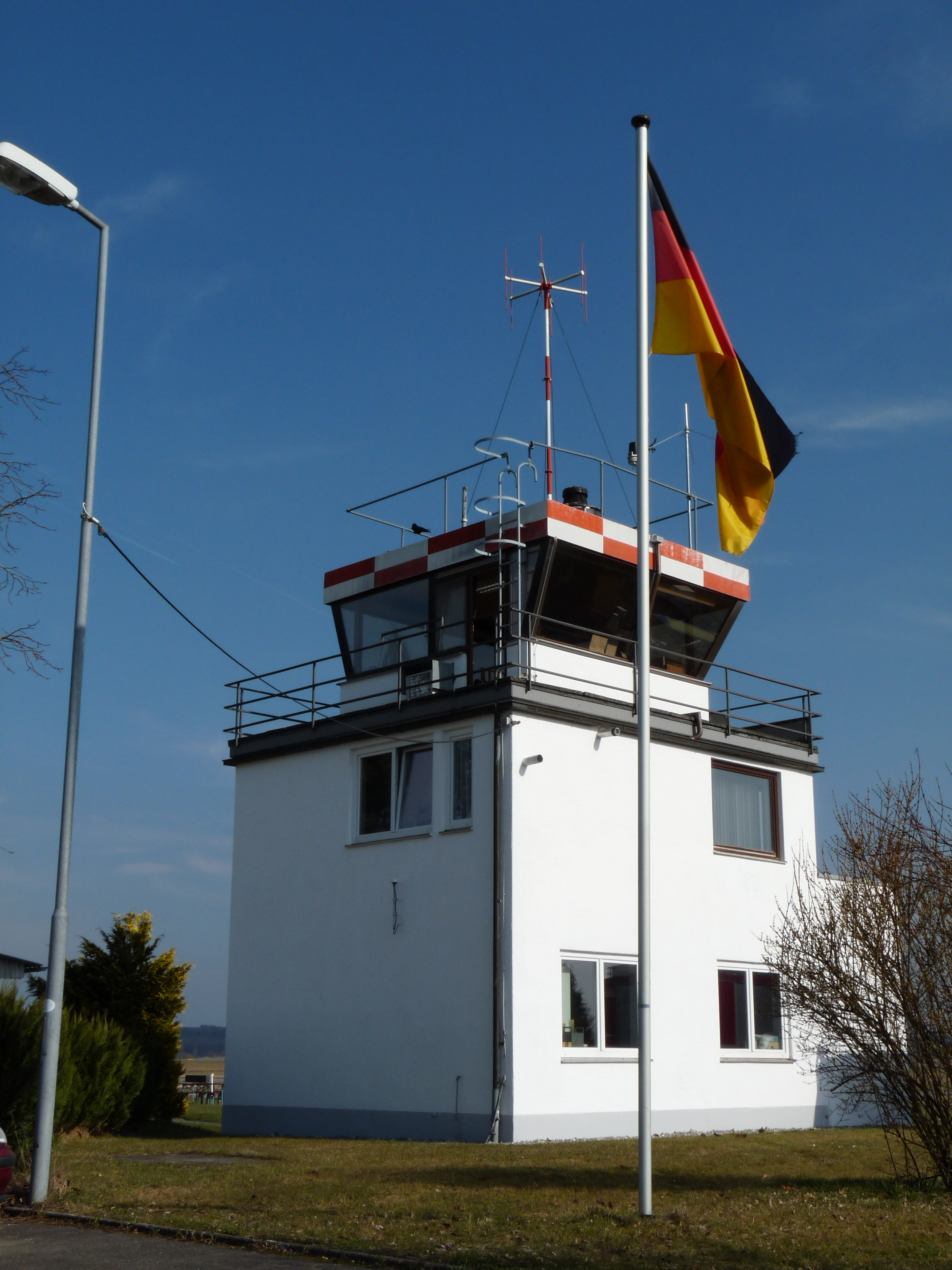 Tower of Airport Mengen-Hohentengen, Germany